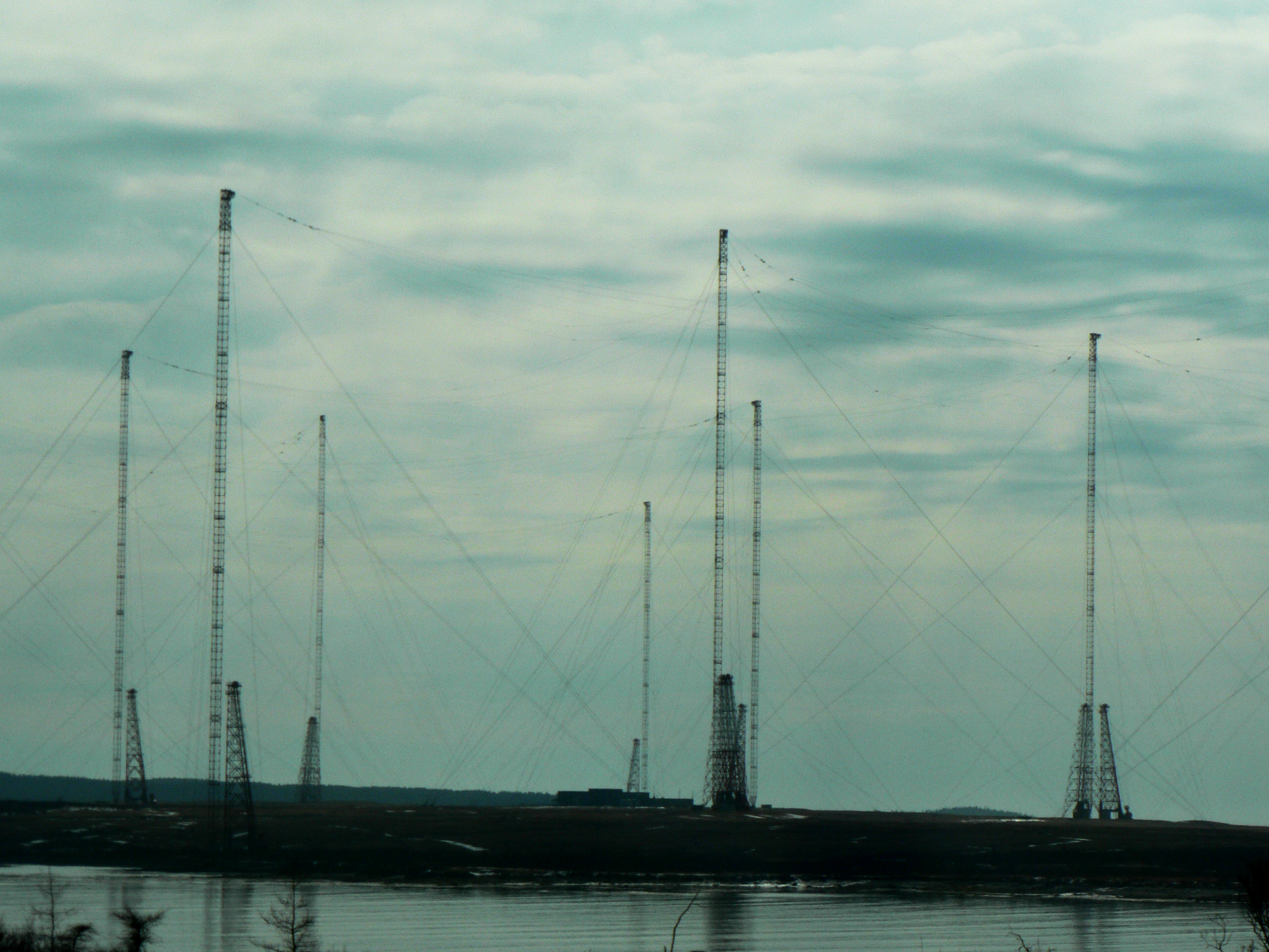 Closeup of a few of the antenna towers of the U.S. Navy Cutler VLF transmitter facility at Cutler, Maine. It transmits operational orders one-way to submerged U.S. submarines worldwide at a frequency of 24 kHz with a power of 1.8 megawatts.